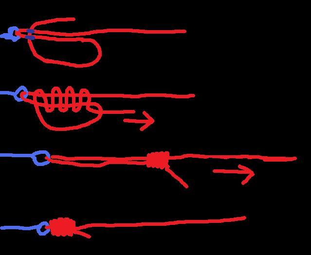 How to tie the uni knot.